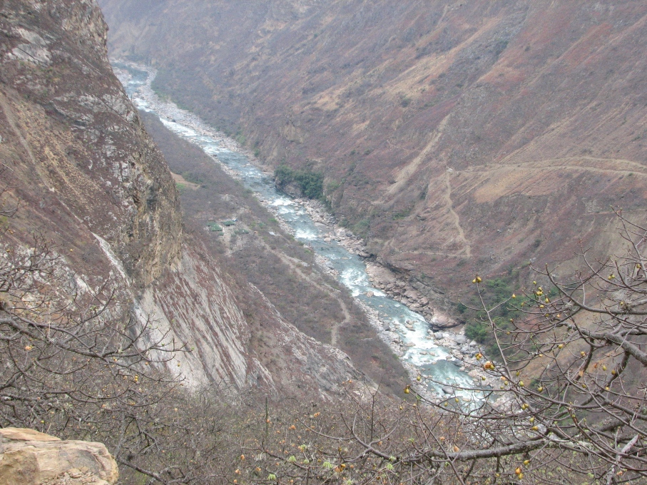 A view of the Apurimac River (Rio Apurimac)